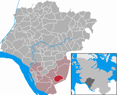 This map shows the area of the municipality Kiebitzreihe in the Kreis (district) Steinburg, Schleswig-Holstein, Germany.